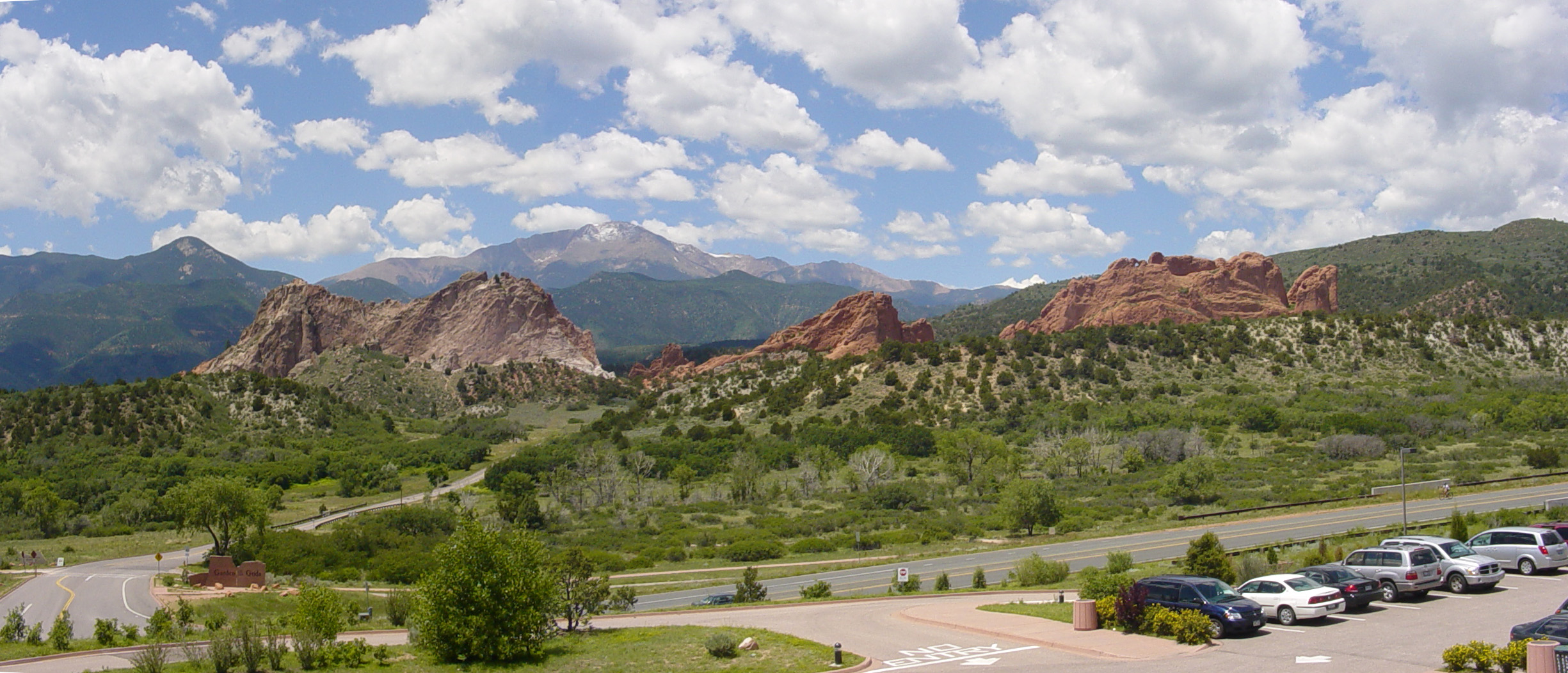 Garden of the Gods, Colorado, 2004. Two pictures stitched to a panoramic image.